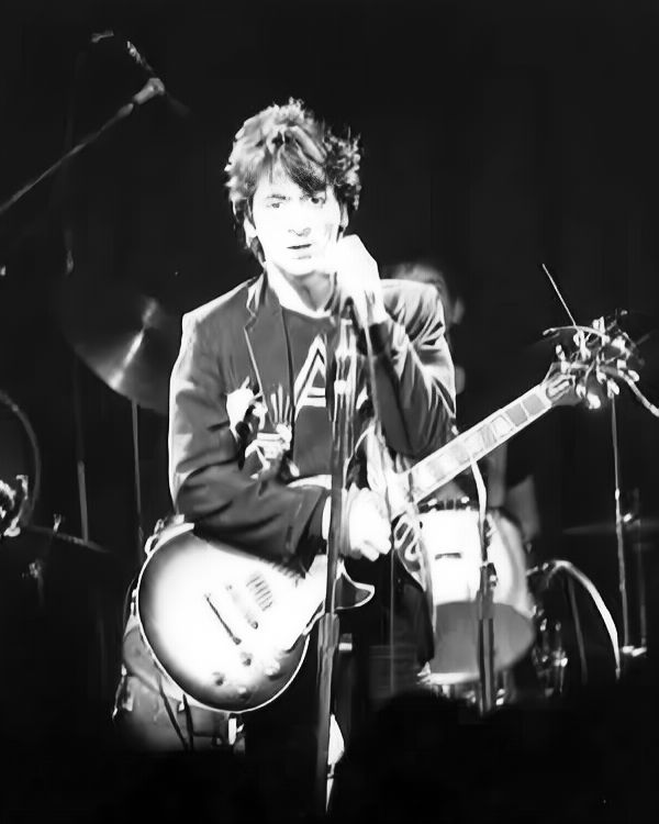 Johnny Thunders live